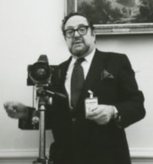 Photographer Arnold Newman waiting for a photo session with Ronald Reagan in the Oval Office in 1981